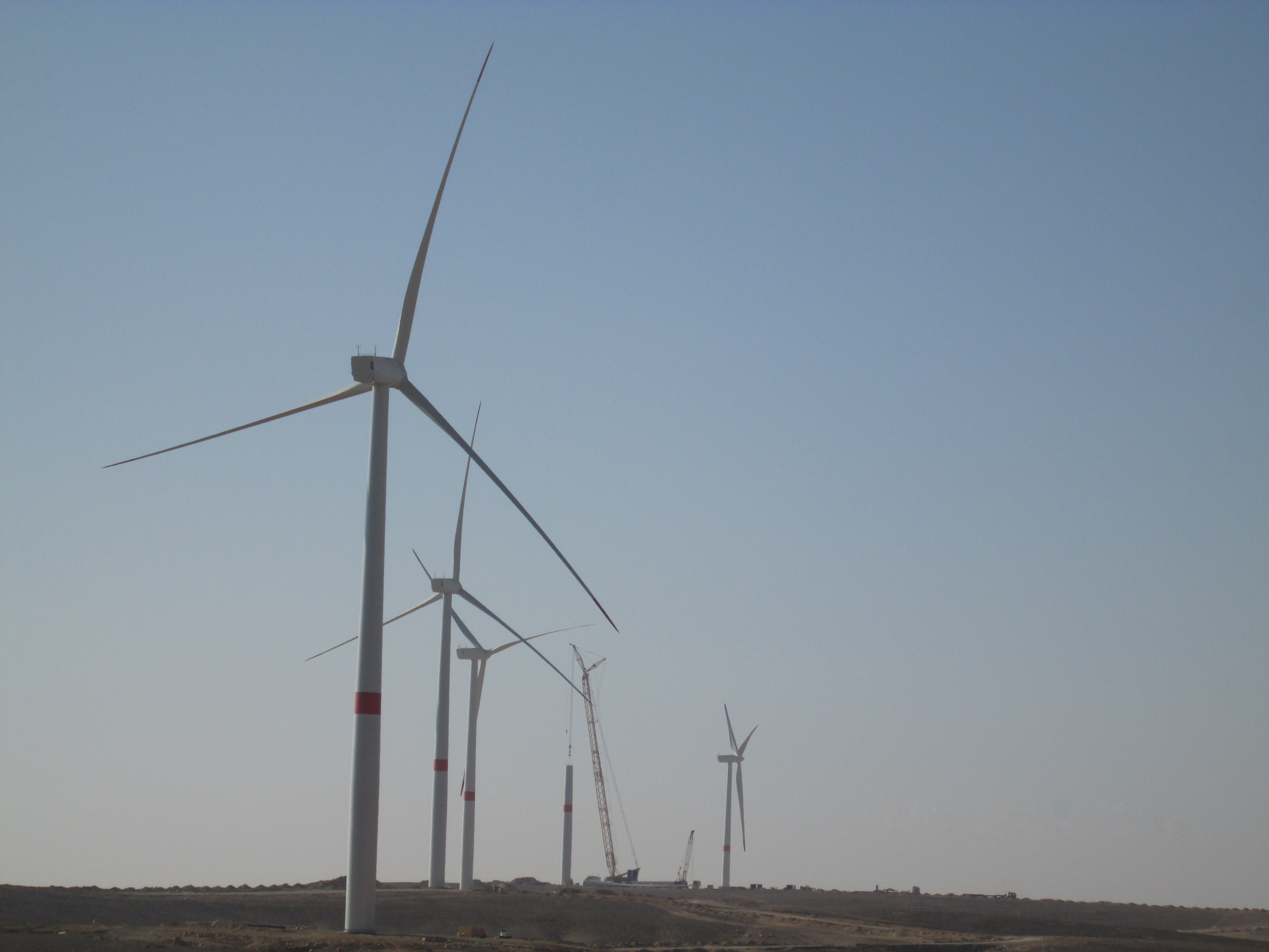 Ma'an Wind Farm (80 MW) under construction, Jordan